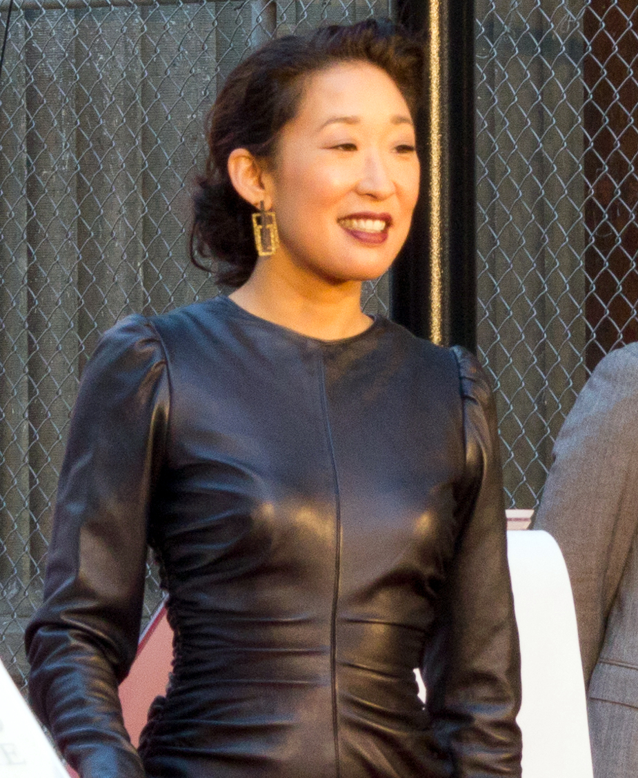 Sandra Oh (in black dress) at the gala for Canada's Walk of Fame 2011.